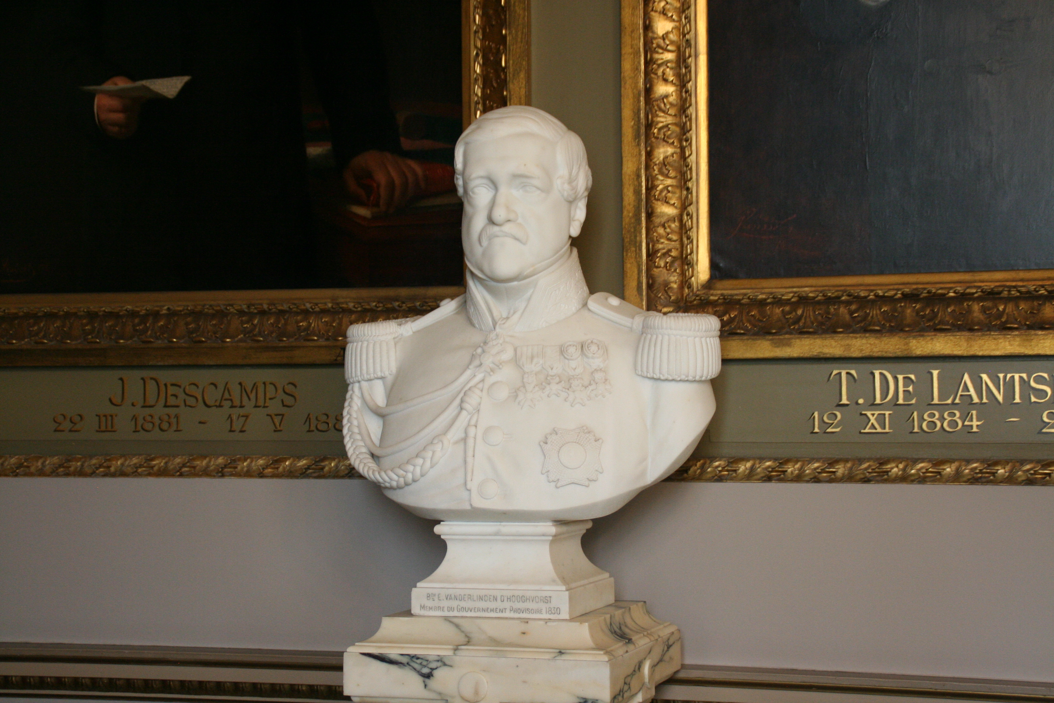 Emmanuel van der Linden d'Hooghvorst in the Palais de la Nation in Brussels, Belgium.